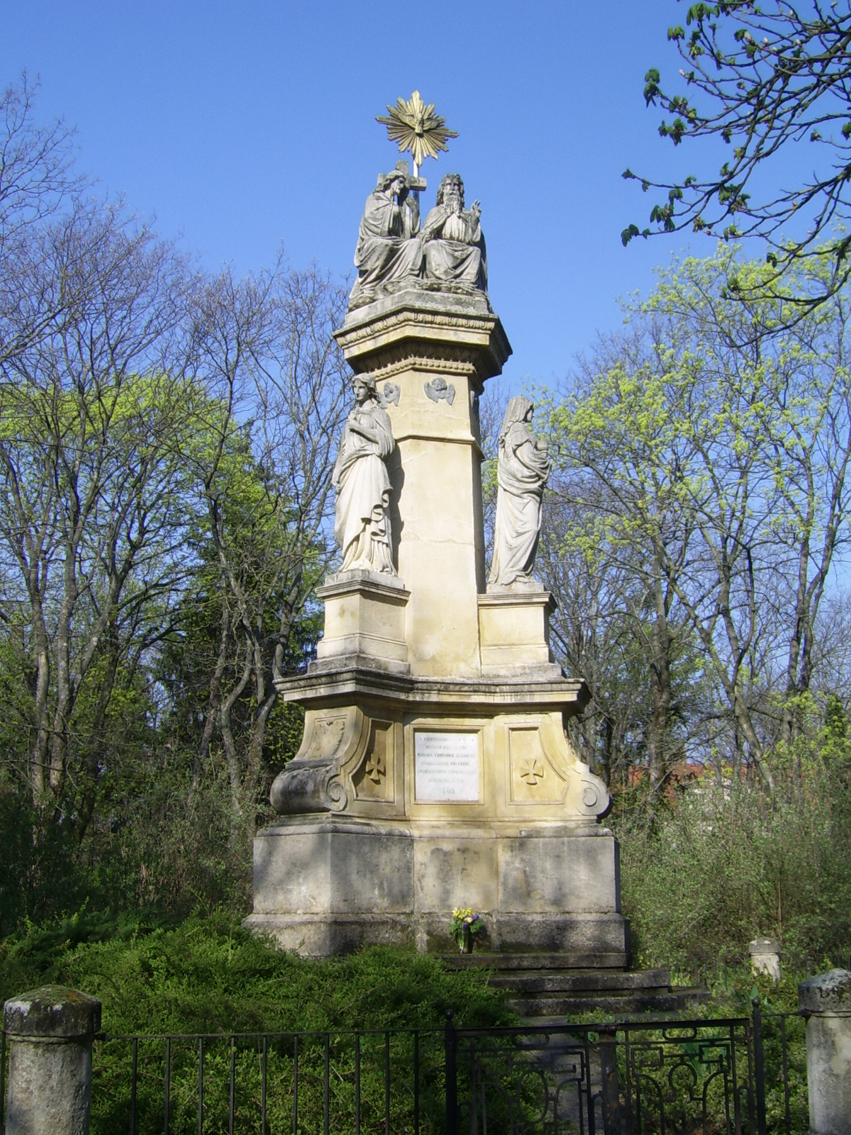 Holy Trinity column in Csongrád; Hungary